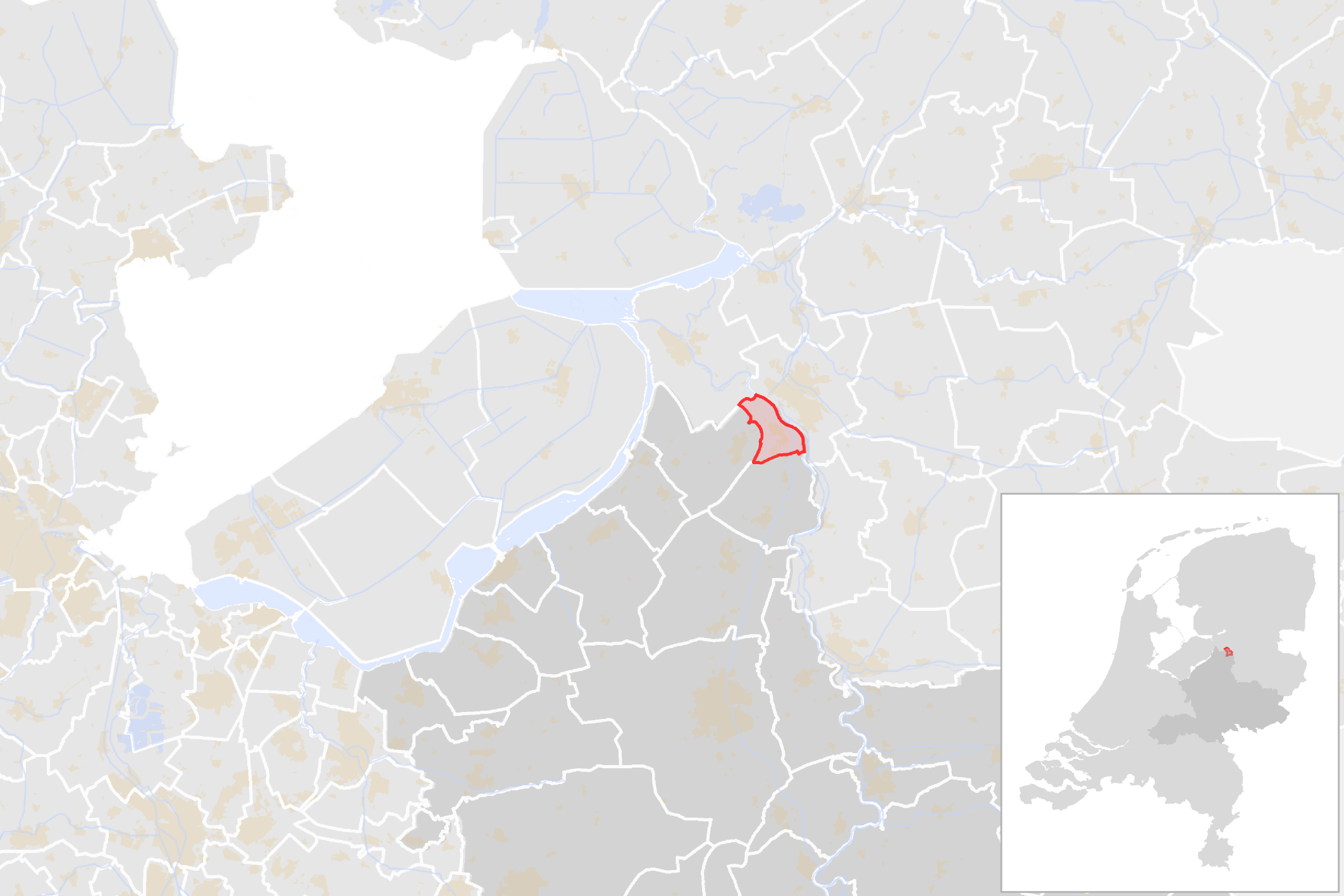 Locator map showing municipality boundary of one of the 390 Dutch municipalities (as of 2016)